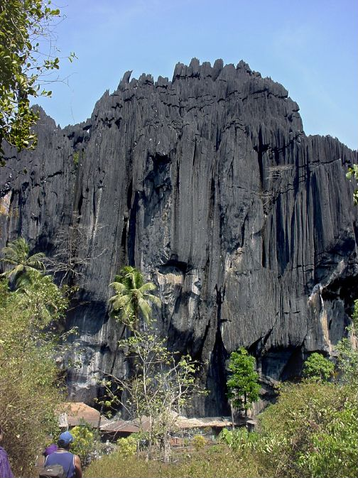 This place in thickets of the Sahyadri hills of the Western Ghats of south India; is around 45kms from Sirsi and about the same distance from Kumta. Two huge rocks are the center of attraction here. There are two temples, temple of Shiva inside a cave and a Ganesha temple nearby. The other places of interest are a small waterfall and the forest itself.